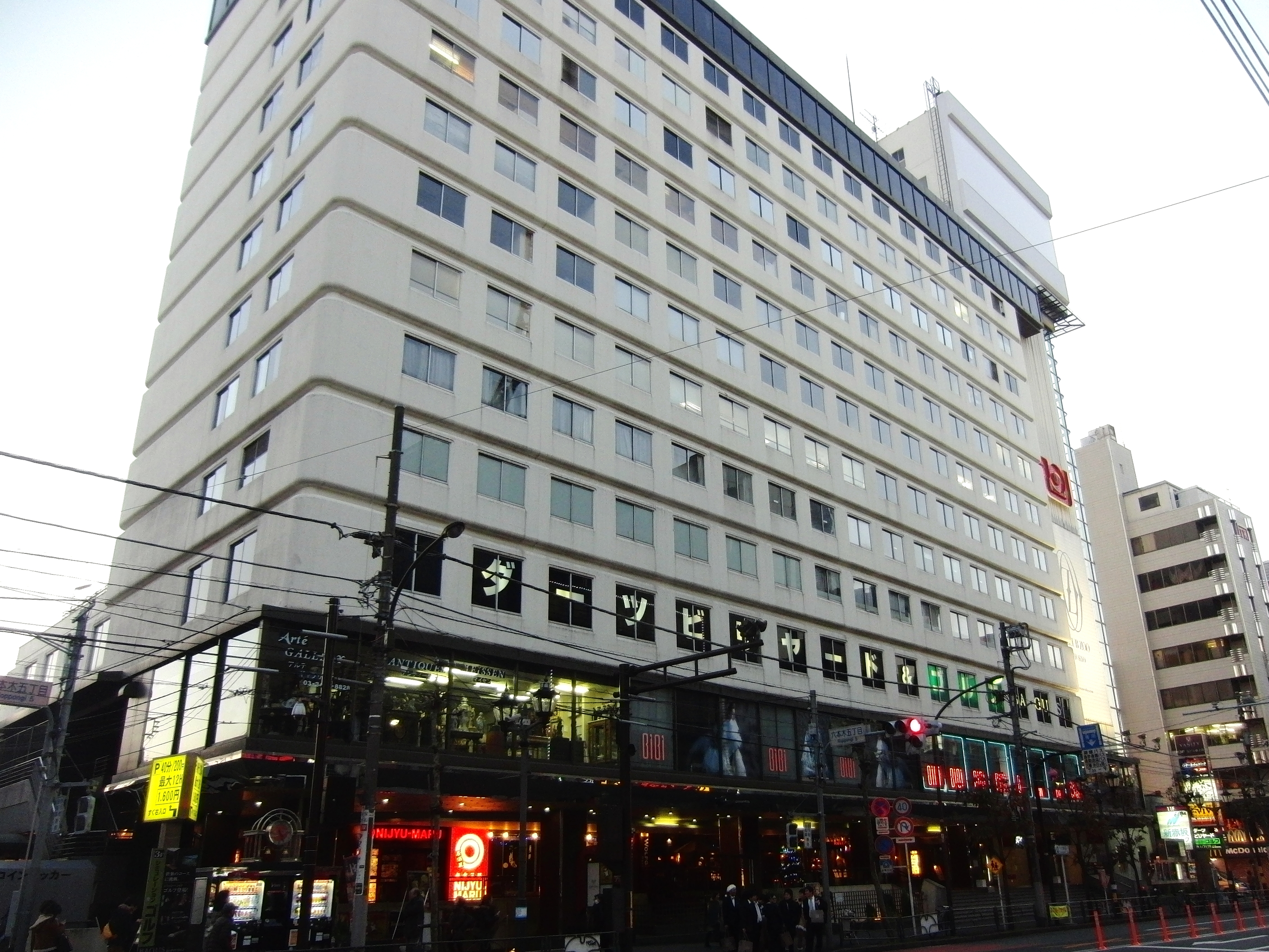 Roppongi Roi Building, Roppongi, Minato, Tokyo, Japan